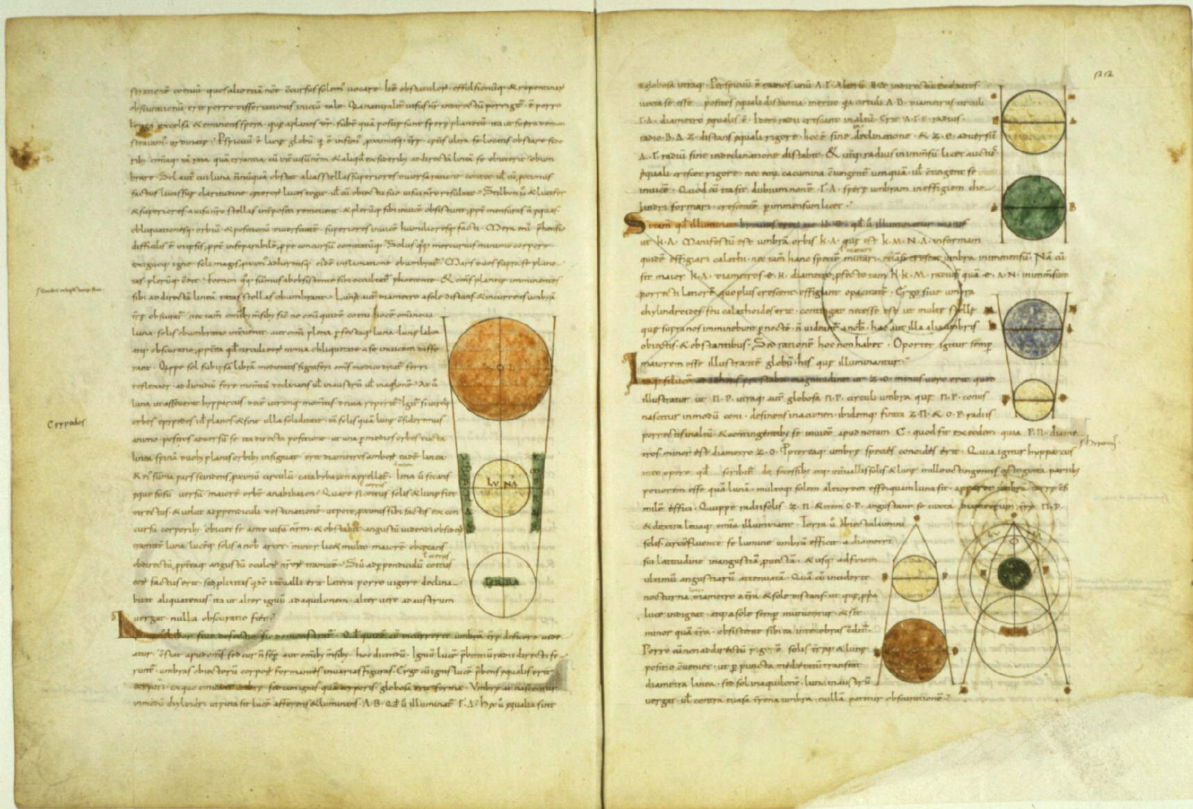 Medieval manuscript of Calcidius' Latin translation of Plato's Timaeus. In the late sixteenth century, this manuscript belonged to Leiden University professor Daniel Heinsius who gave it to his son Nicholas. Nicholas, whose signature appears on the manuscript, was the librarian of Queen Christina of Sweden, whose collection came to the Vatican Library after her death.